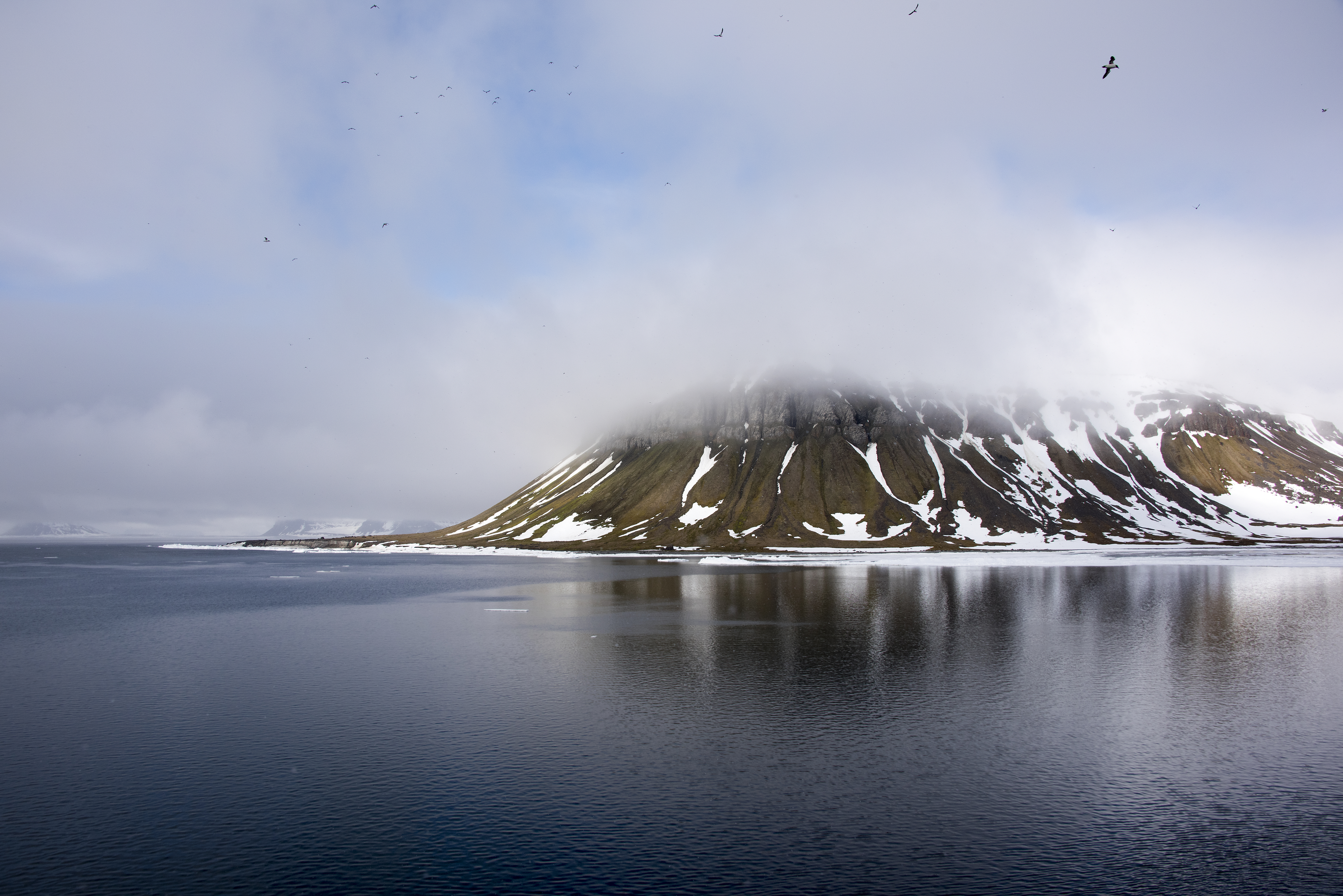 NORTH POLE North Pole Keep